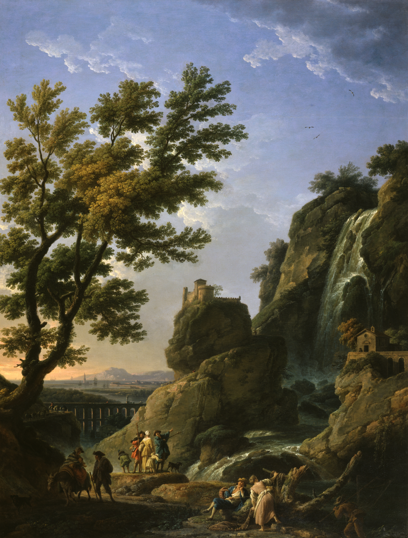 At the age of twenty Vernet left his native Avignon for a lengthy stay in Rome where he devloped a style of idealized landscape painting derived from the 17th-century classical traditions of Claude Lorrain and Salvator Rosa. Not until 1762 did he settle in Paris, metting with success there painting marine scenes and "picturesque" views that recalled his Italian sojourn as well as reflected a debt to Dutch landscape painting. His work was admired by wide international clientele. Scenes with cascades of waterfalls loosely based on the famous Italian sites of Tivoli and Terni were painted by Vernet throughout his career, and several are recorded for the year 1768. This handsome painting was commissioned for an 18th-century country house located in Danson Park, England, that was designed by the architect Robert Taylor for the English merchant John Boyd in 1766. Vernet was the leading landscape painter of the 18th century. His idealized compositions, loosely inspired by the Italian countryside, were much prized as souvenirs of the so-called "Grand Tour" of Italy made by the elite to acquire cultural sophistication. In this landscape, Vernet evokes the feel of the Italian countryside, which he has adorned with picturesque ruins and lively figures, without actually re-creating any specific time or place. This work combines all the typical elements of Vernet's ideal views. As tourists gawk at the waterfall, picturesque peasants go about their business. The perfectly calculated balance between the large tree, the harsh rocky face of the cliff, and the sun-drenched vista beyond the aqueduct evokes the notion of the sublime which figured so prominently into the 18th century.